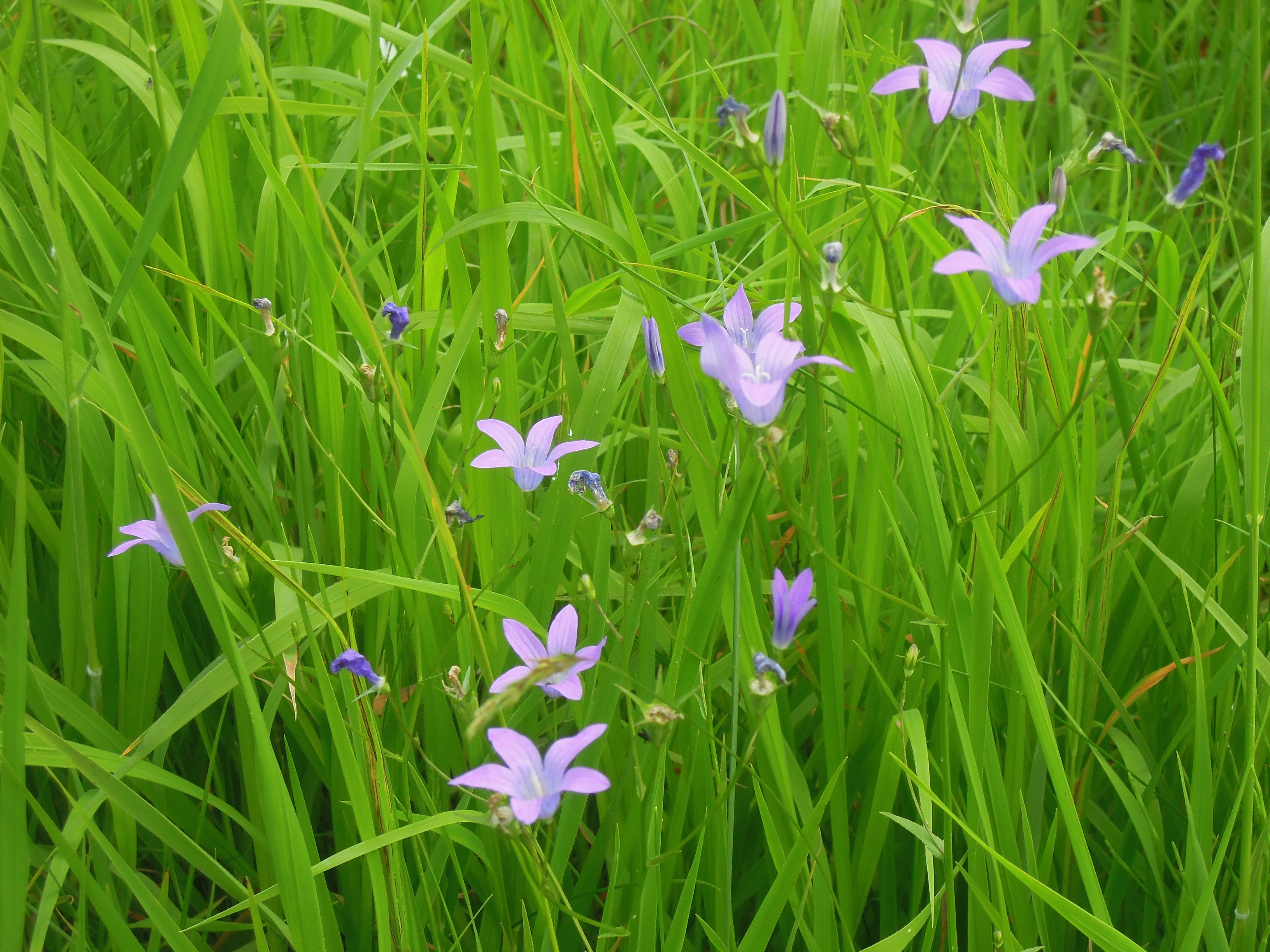 Campanula patula at natural monument Hrádek in Študlov, Vsetín District, Zlín Region, Czech Republic